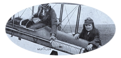 Eldorado Jones with the muffler she created